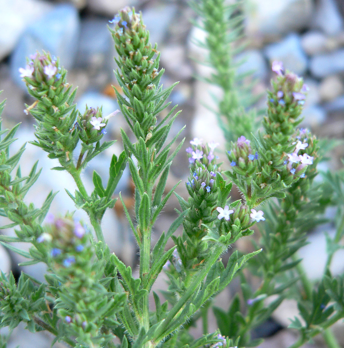 Verbena bracteata in Lovell Canyon, Spring Mountains, southern Nevada